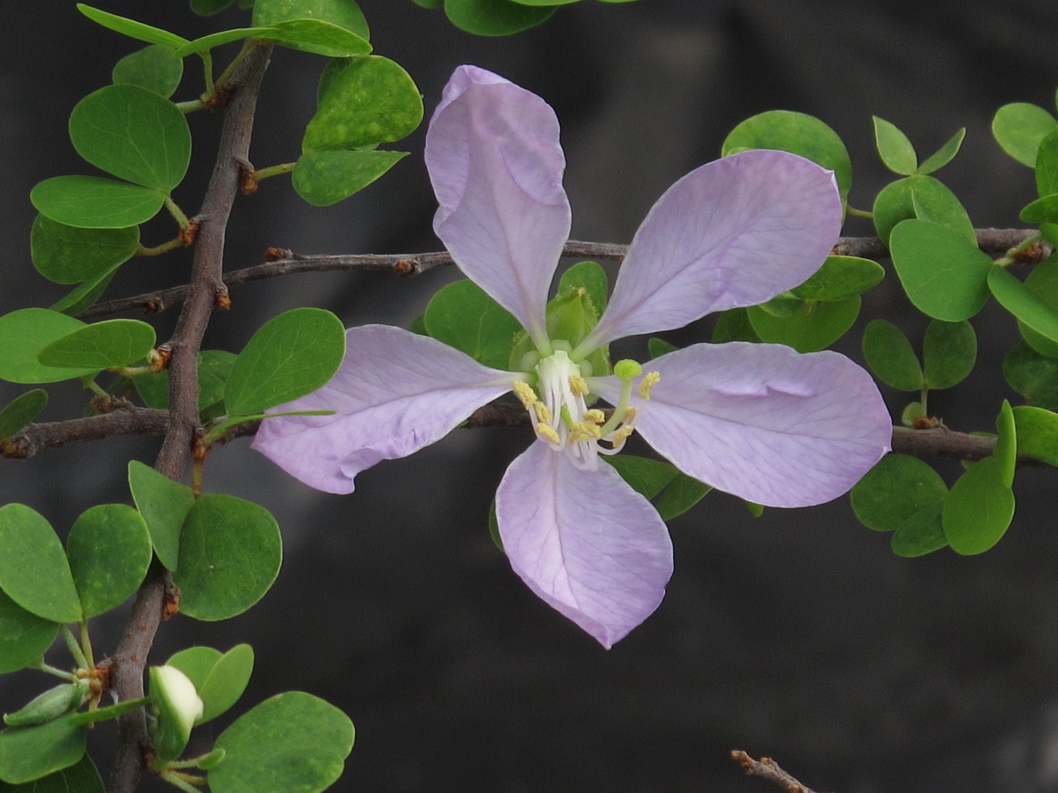 Biological Sciences greenhouse, Florida International University, Miami, Florida, USA. This delicate little species has leaves less than an inch long. It's from Madagascar.